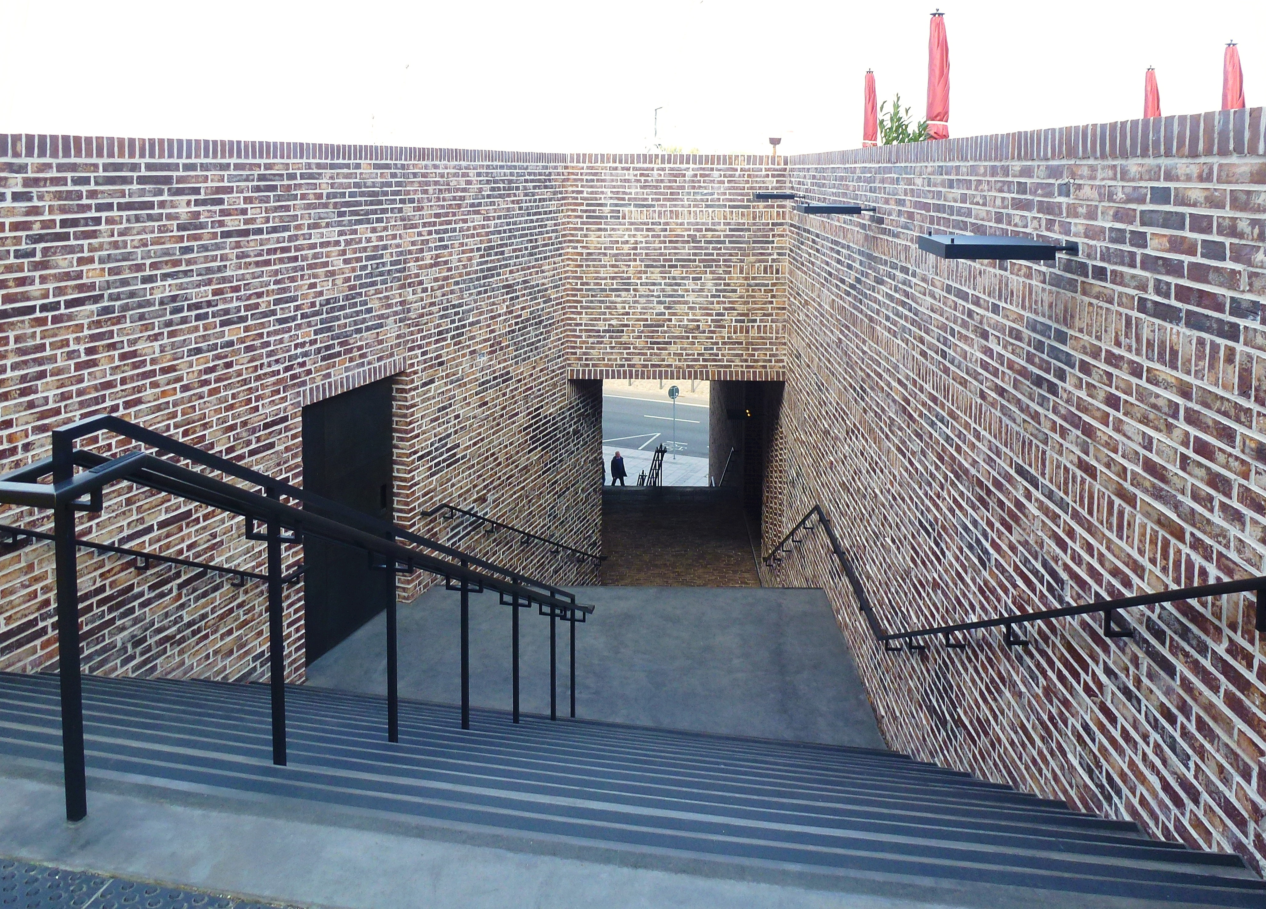 European Hansemuseum in Lübeck, Germany (Europäisches Hansemuseum): Entrance to the hall at halfway of the stairs.